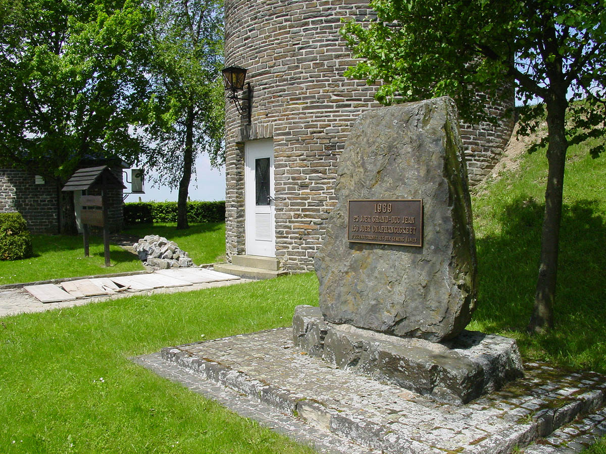 Stone and tower at the Buurgplatz, Luxembourg.